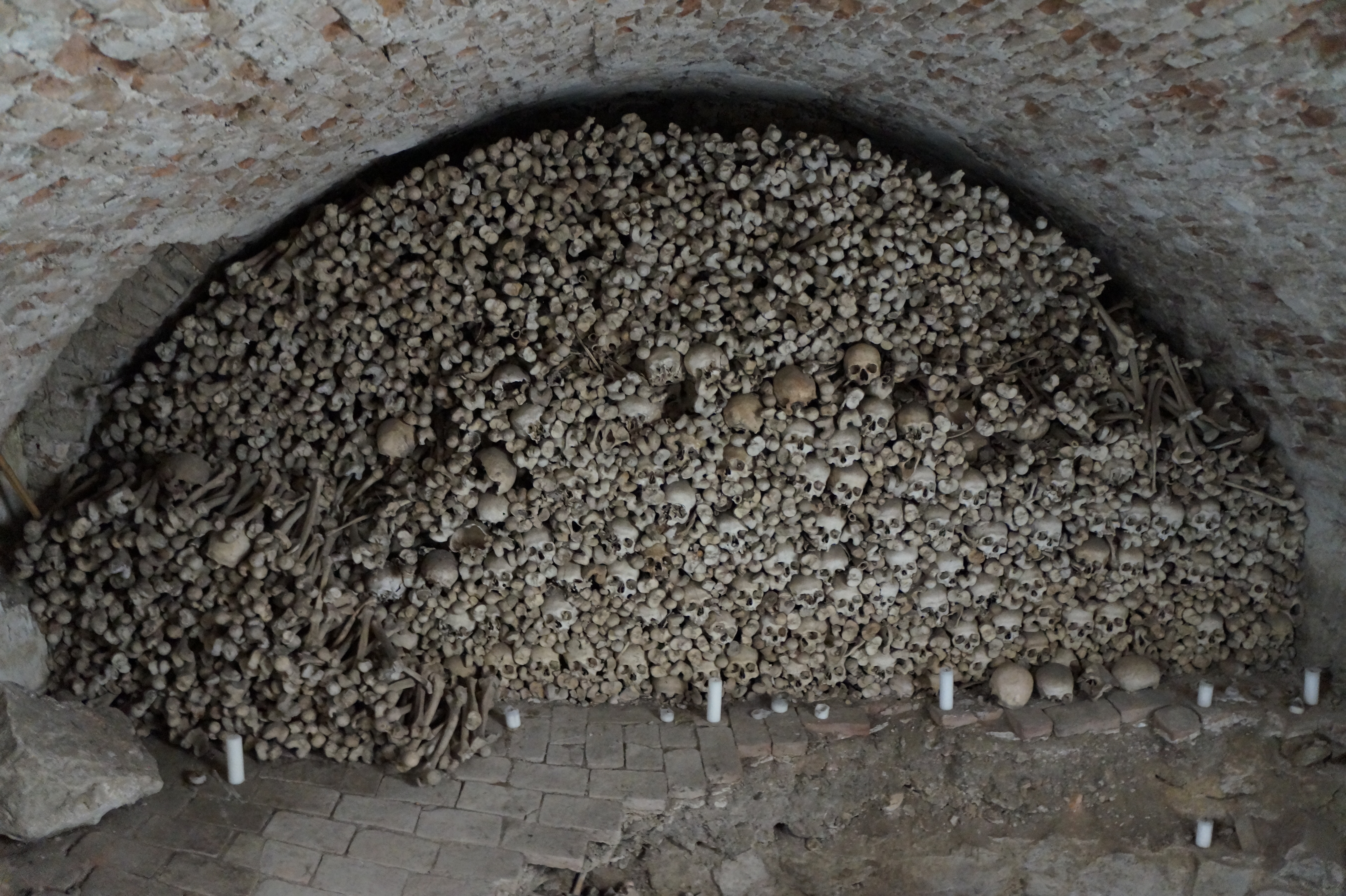 Human remains from the St James Ossuary in central Bratislava. This site is closed to the public due to the unsafe nature of the structure.